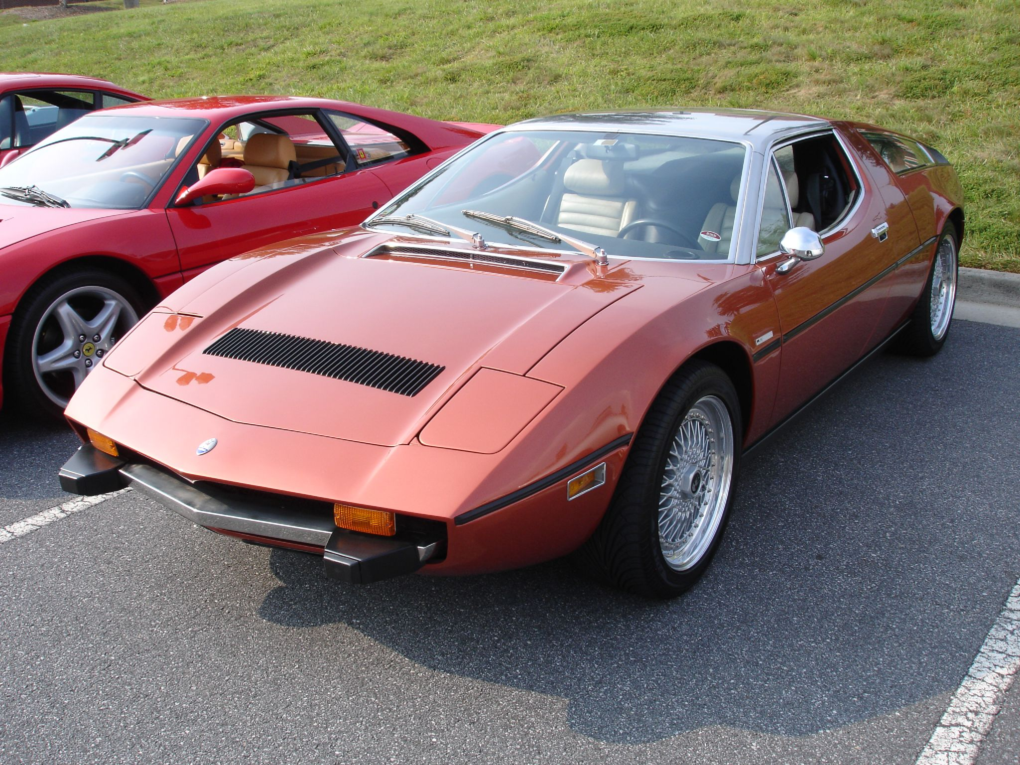 Maserati Bora Old Car.